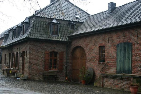 Cultural heritage monument No. 51 in Heinsberg